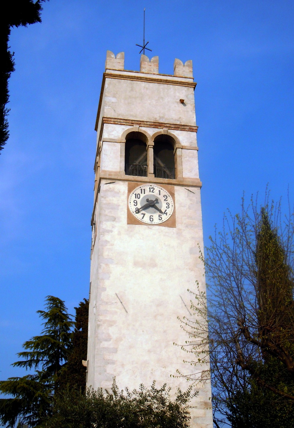 Campanile, Castello Roganzuolo, TV